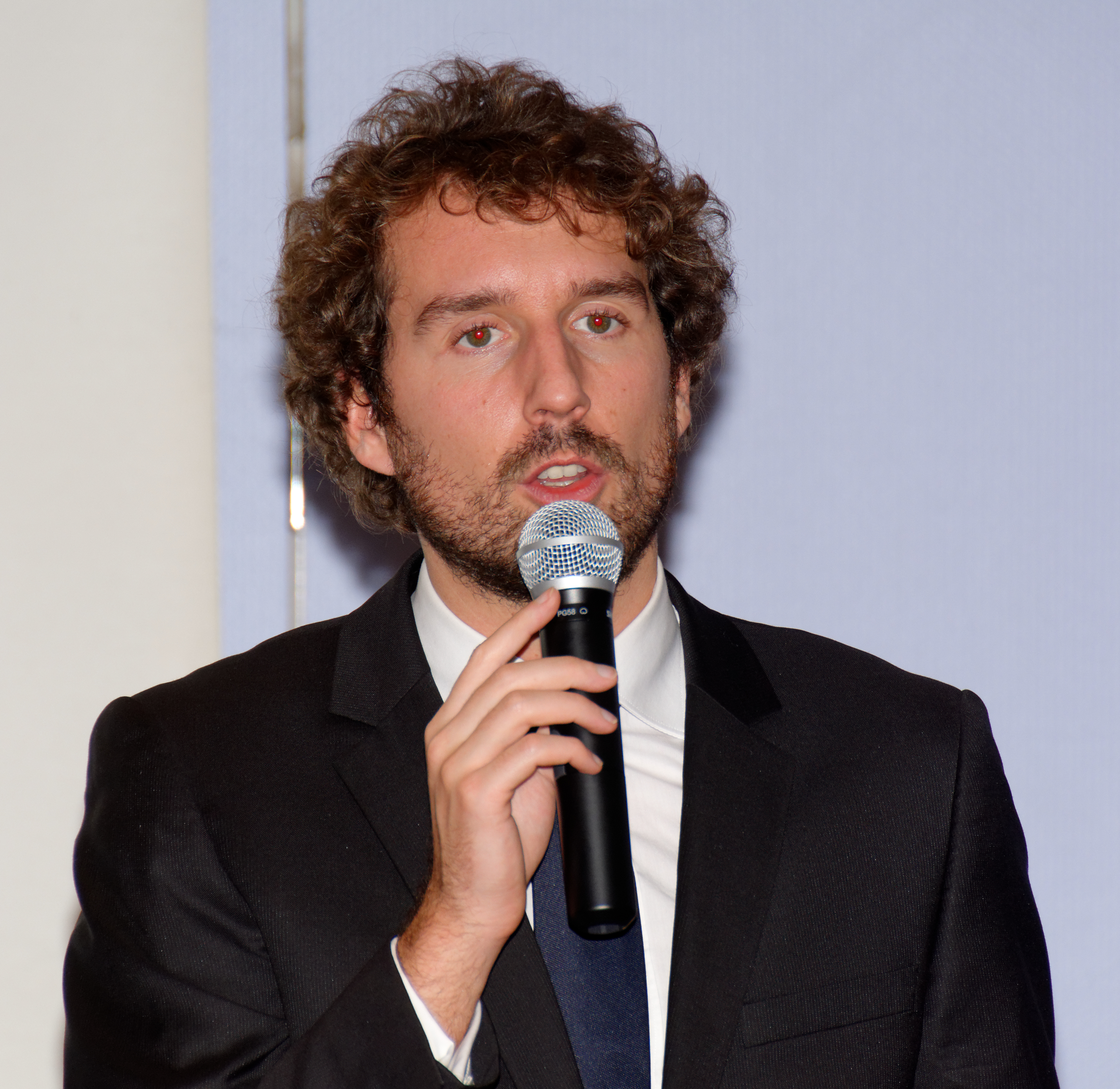 Personality rights warningAlthough this work is freely licensed or in the public domain, the person(s) shown may have rights that legally restrict certain re-uses unless those depicted consent to such uses. In these cases, a model release or other evidence of consent could protect you from infringement claims.